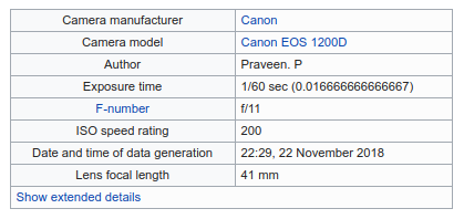 Exif metadata of an Image, from Wikimedia commons (Mediawiki software)